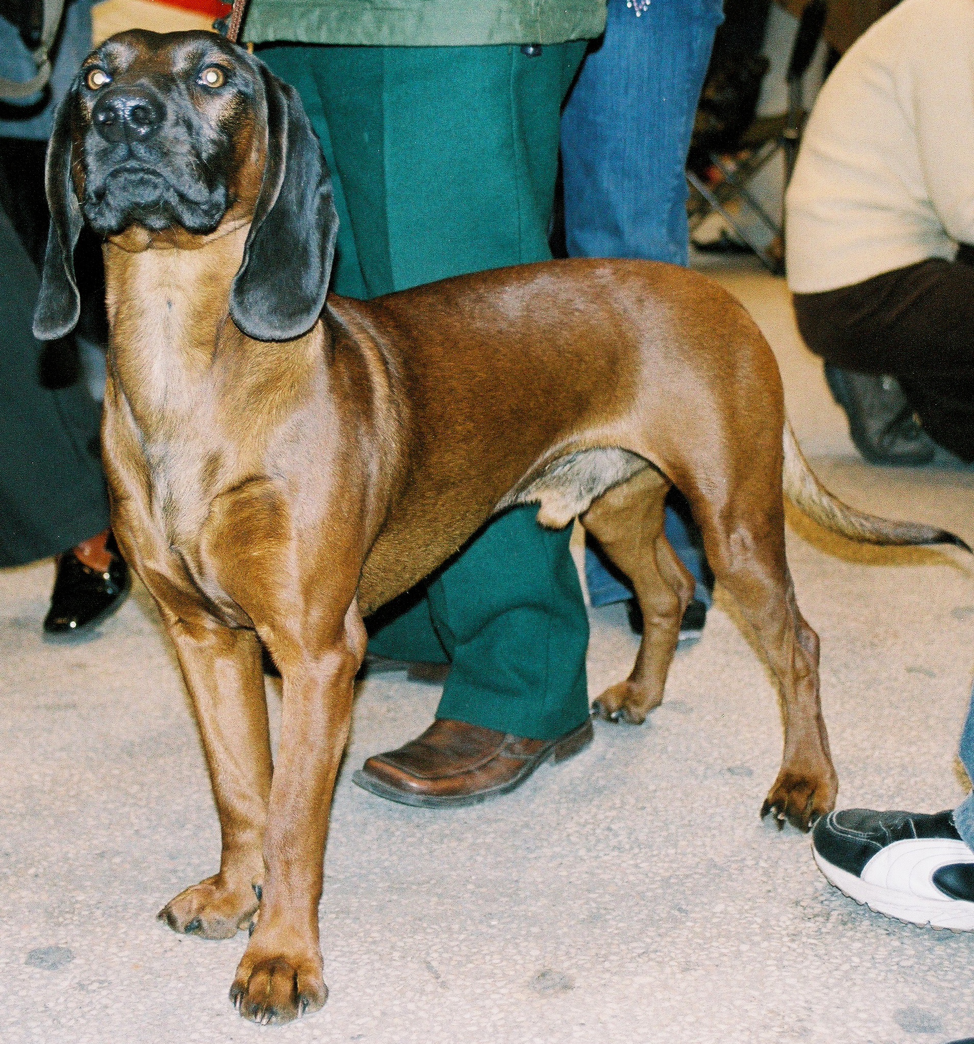 Bavarian Mountain Hound